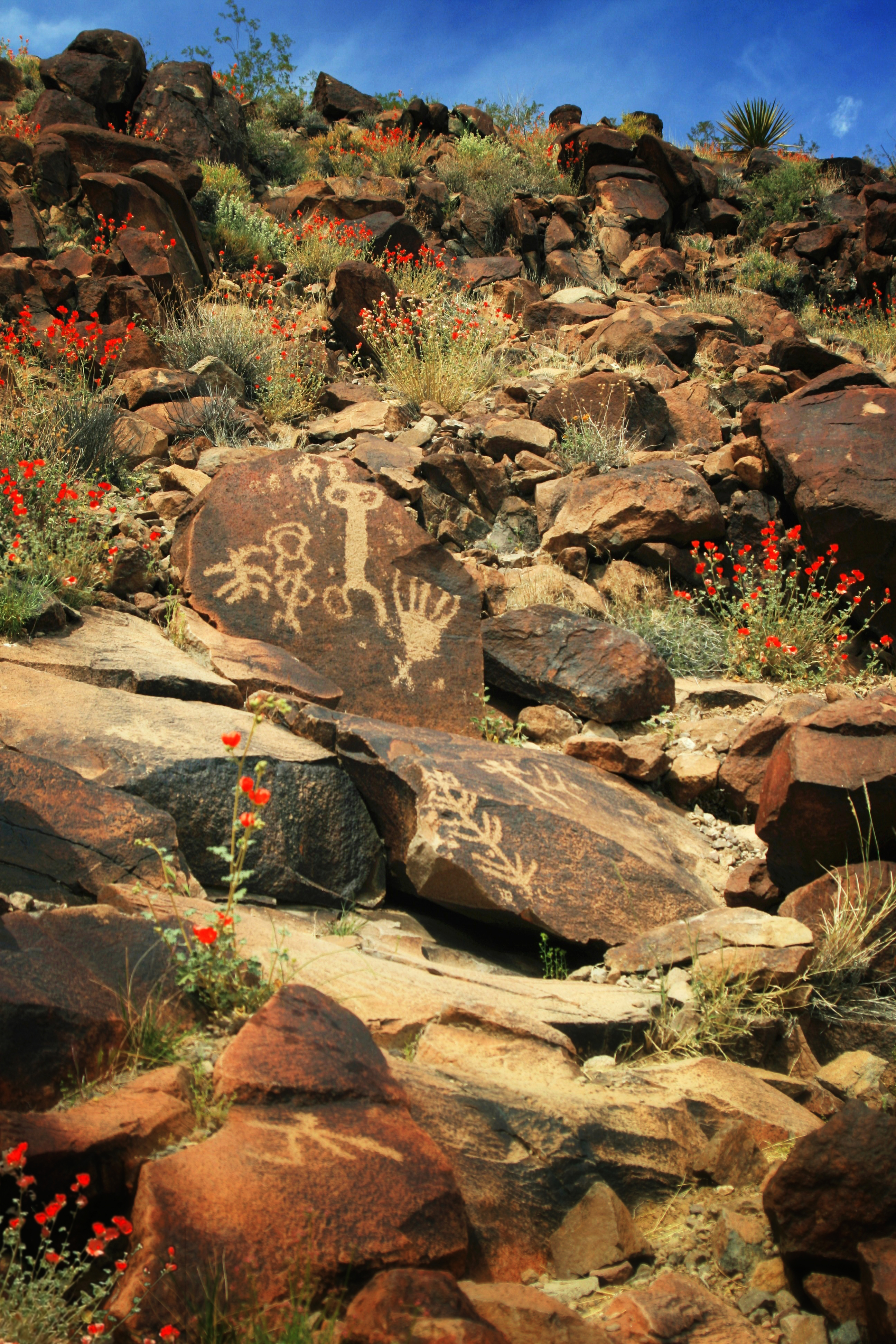 Image: Rock Art Symbols from Somewhere in Time Location: Sloan Canyon National Conservation Area BLM District: Southern Nevada District Photographer: Mike McGrew PIC: 6MB 2013